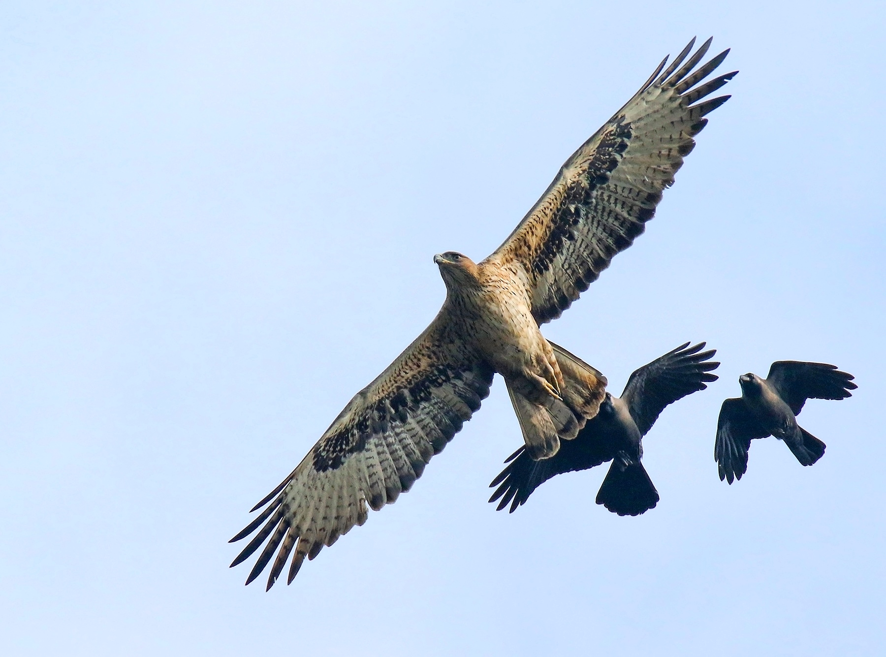 Bonelli's Eagle (Aquila fasciata) captured at Maralla, Sialkot, Punjab, Pakistan with Canon EOS 7D Mark II